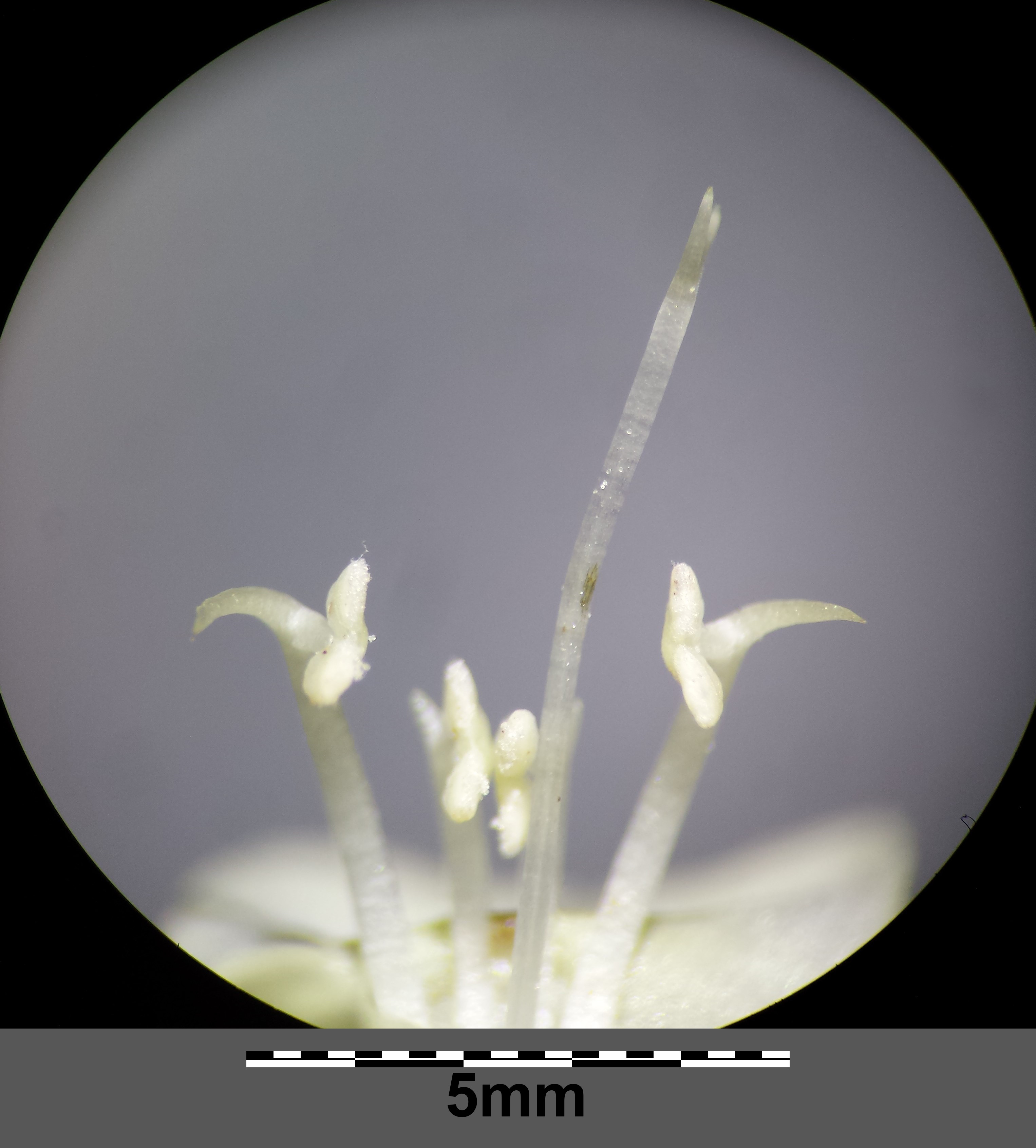 Stamina and stylus Taxonym: Prunella laciniata ss Fischer et al. EfÖLS 2008 ISBN 978-3-85474-187-9 Location: to the east of Neusiedl am See, district Neusiedl am See, Burgenland, Austria - ca. 160 m a.s.l. Habitat: semi-dry grassland